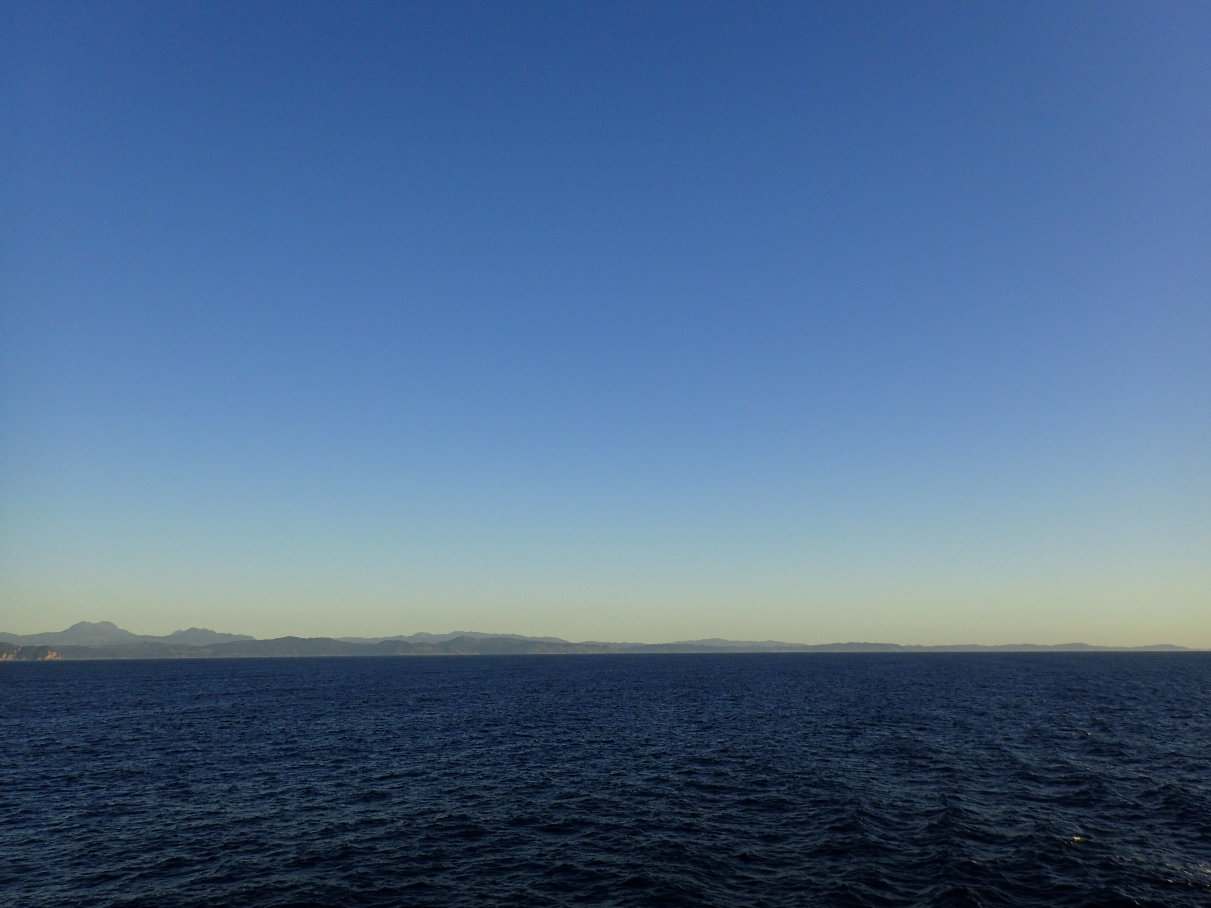 Raukumara Range East Cape Aotearoa New Zealand. Hikurangi high on the left, Mt Raukumara the high Land towards the middle and East Cape on the right